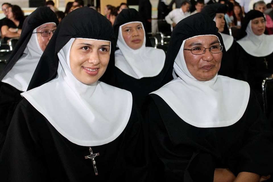 Augustinian Recollect Nuns.